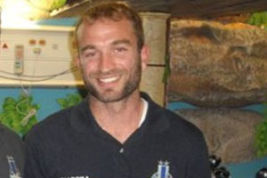 Picture of Ivan Woods.